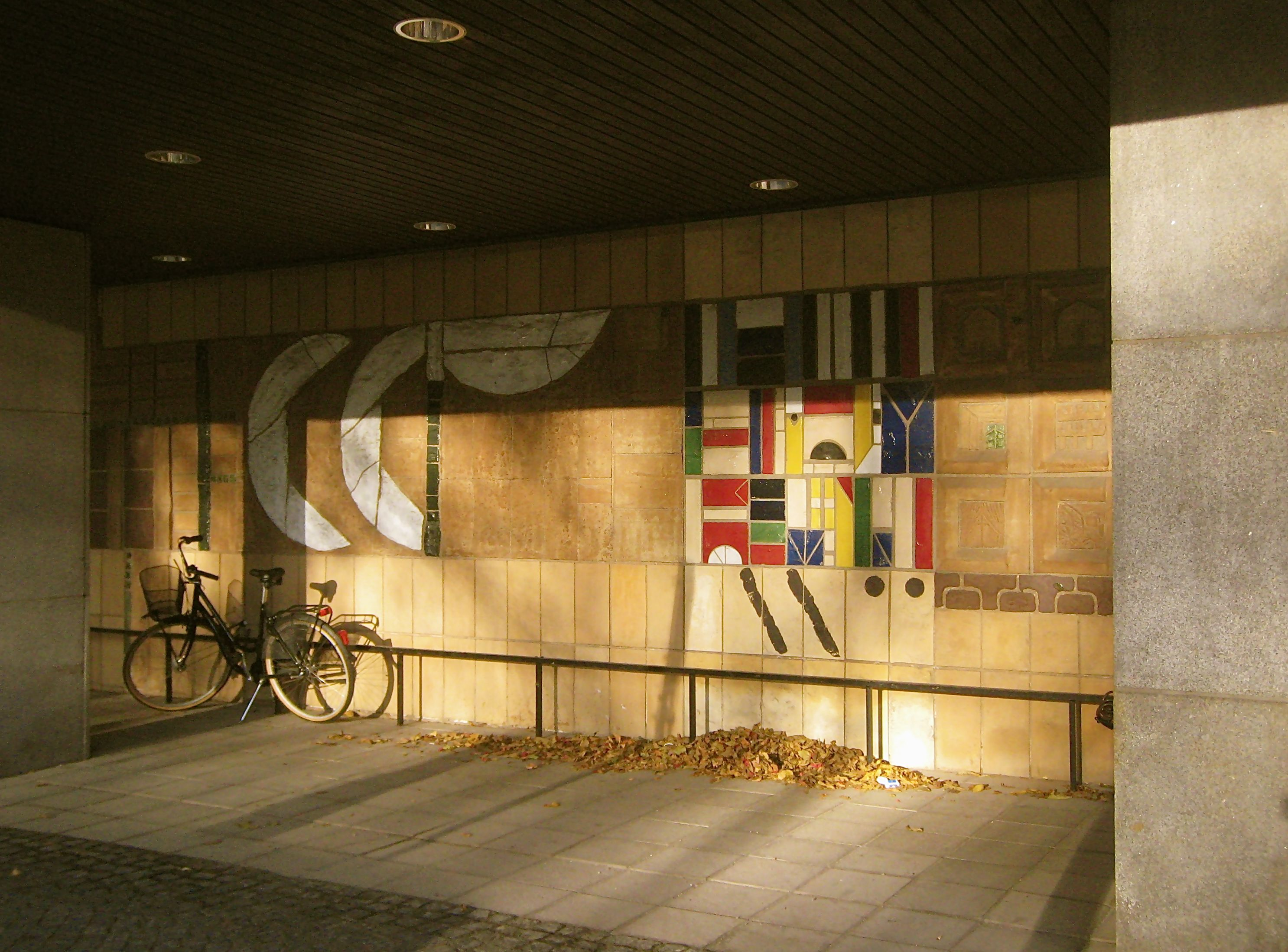 Skogsindustrihuset på Villagatan 1, korsningen mot Karlavägen.